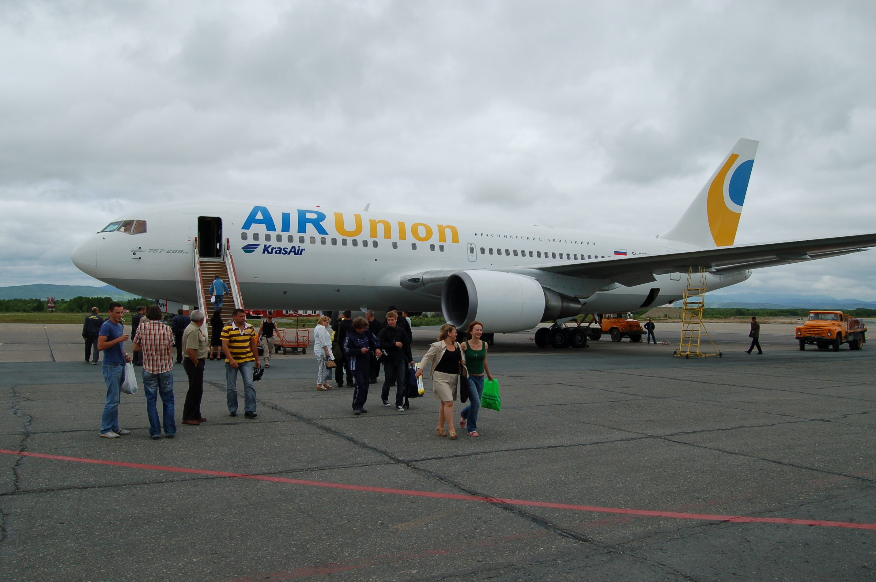 Boeing 767-200ER of AiRUnion / KrasAir.